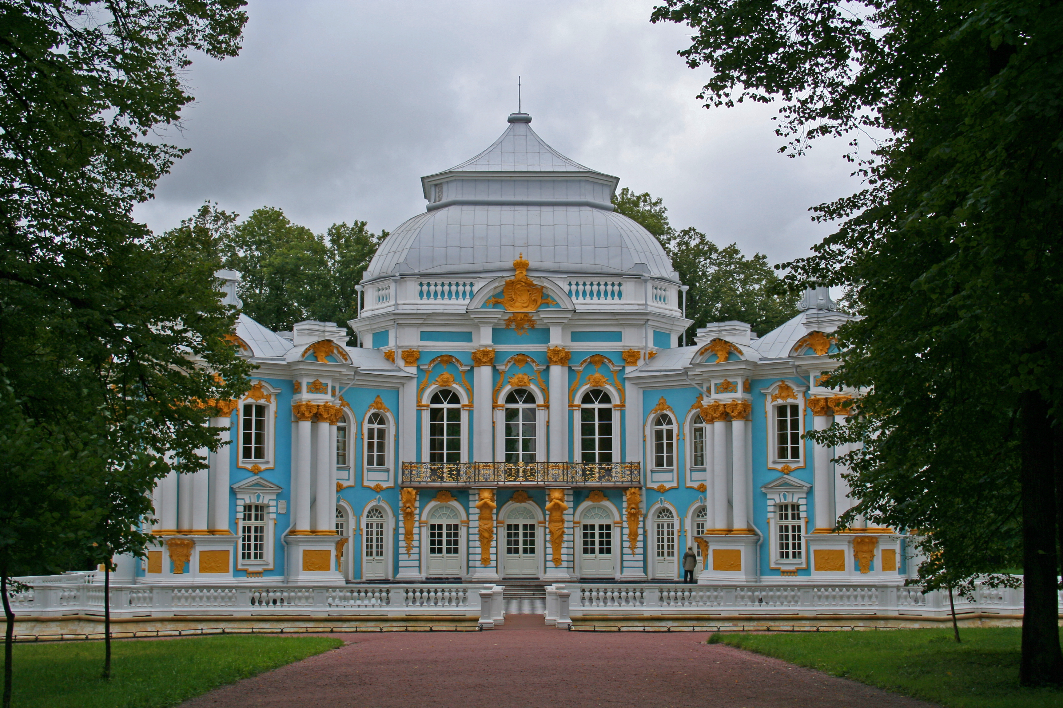 Views of Catherine Park in Pushkin, Saint Petersburg.